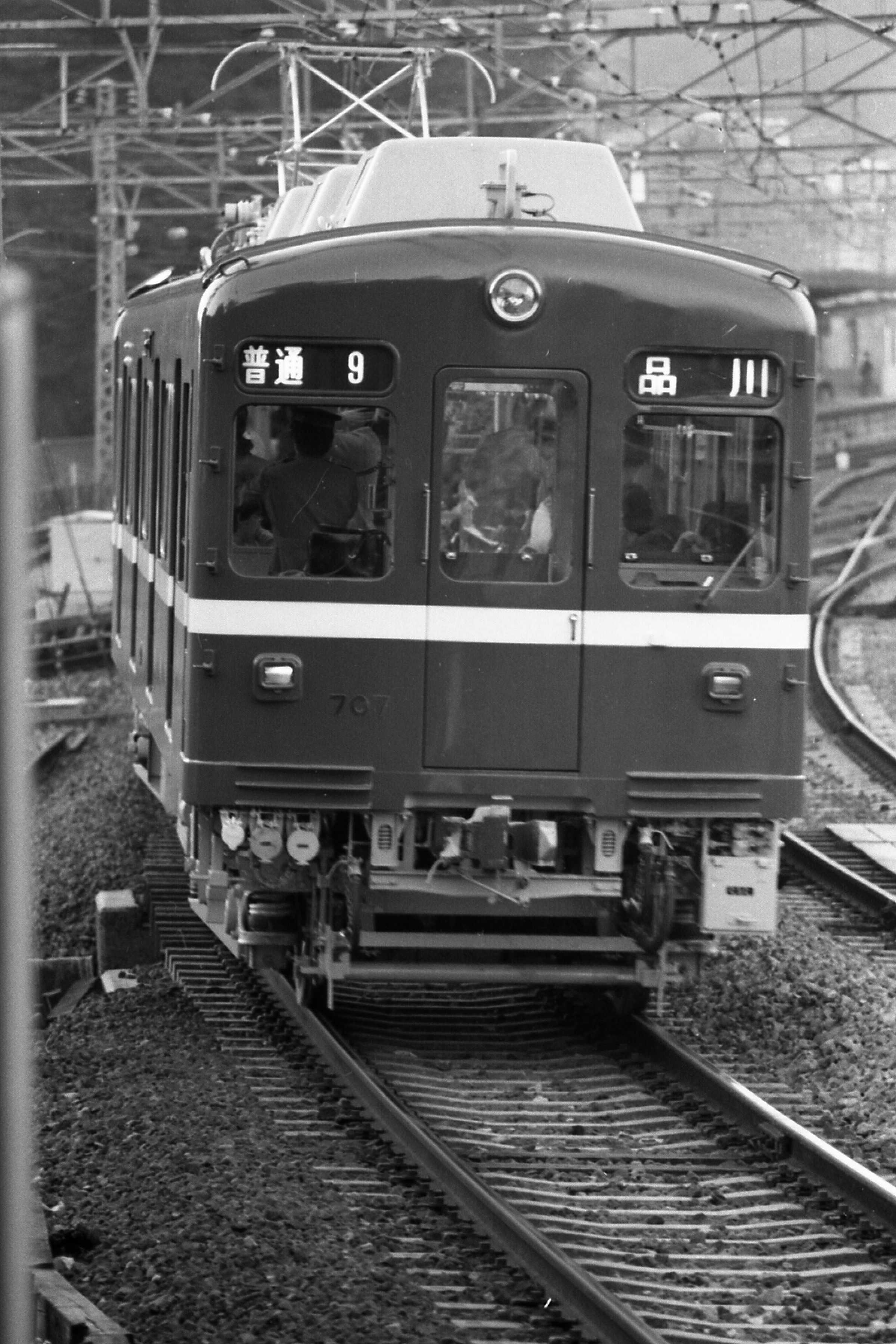 Keikyu 707 just after its refurbishment Taken near Horinouchi station